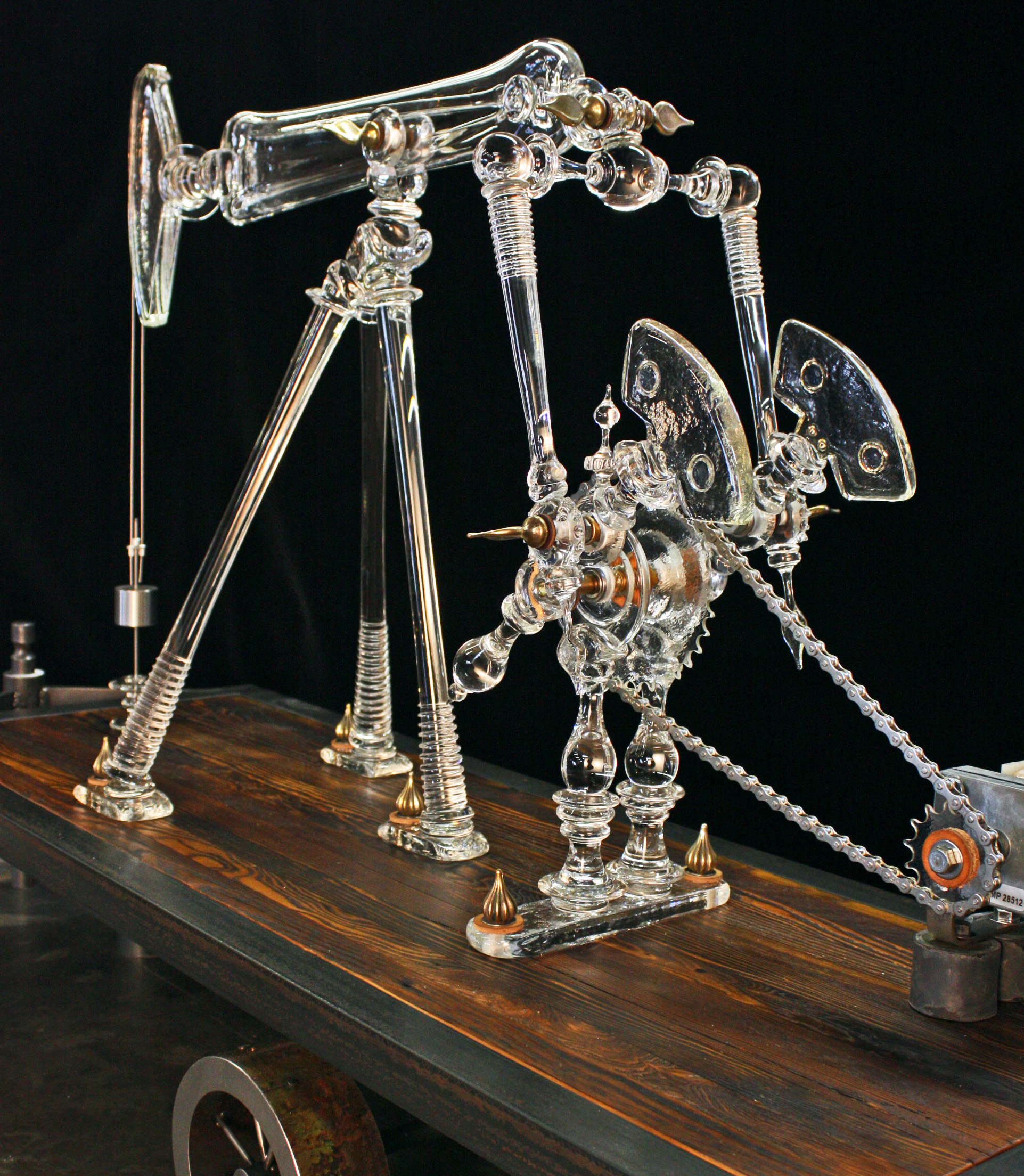 Blown glass electric pump jack sculpture — by artist Andy Paiko.